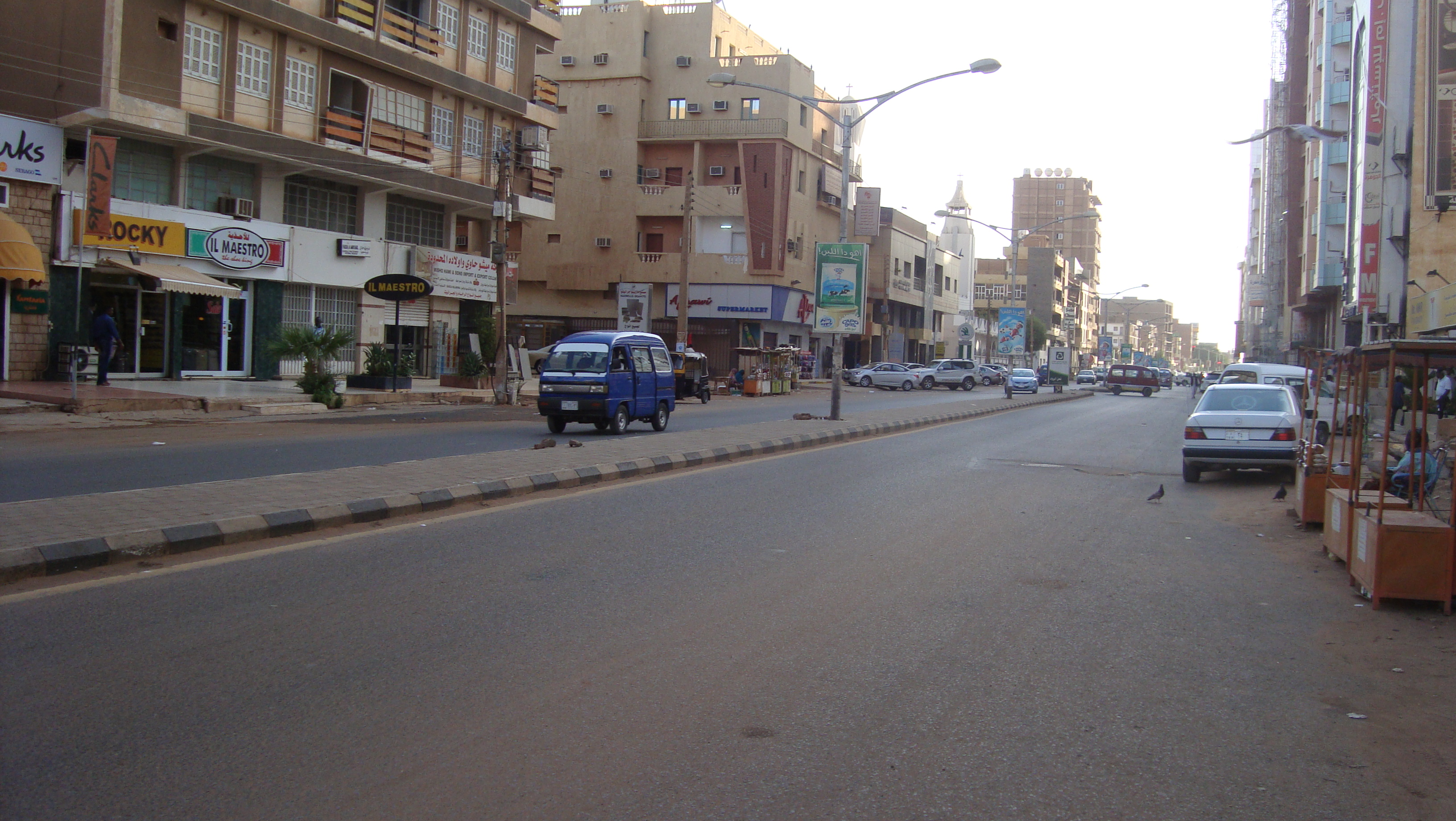 Amarat Street No: (15) – Khartoum - Sudan